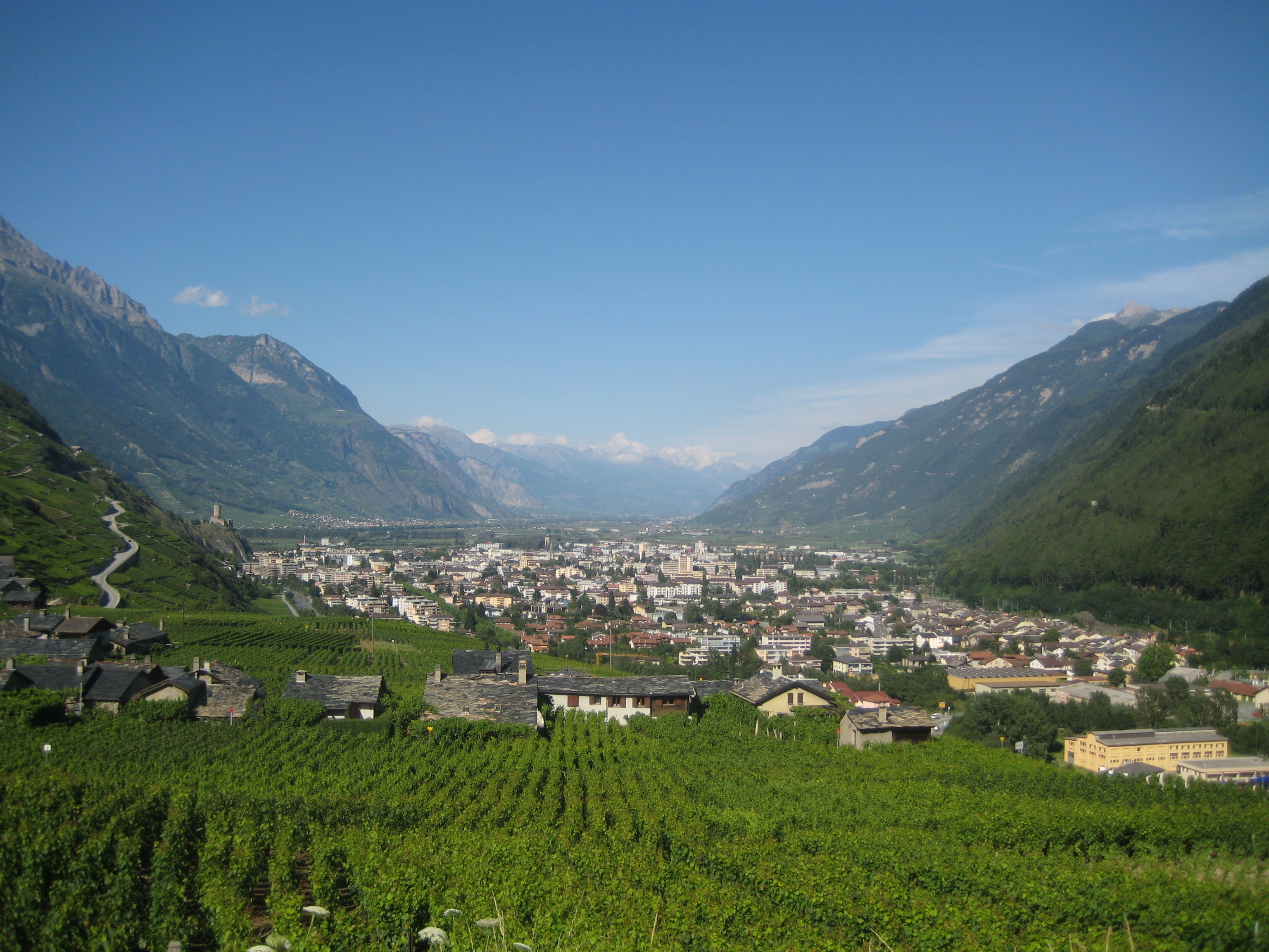 Martigny, (Valais, Switzerland) its vineyards and the swiss rhône valley